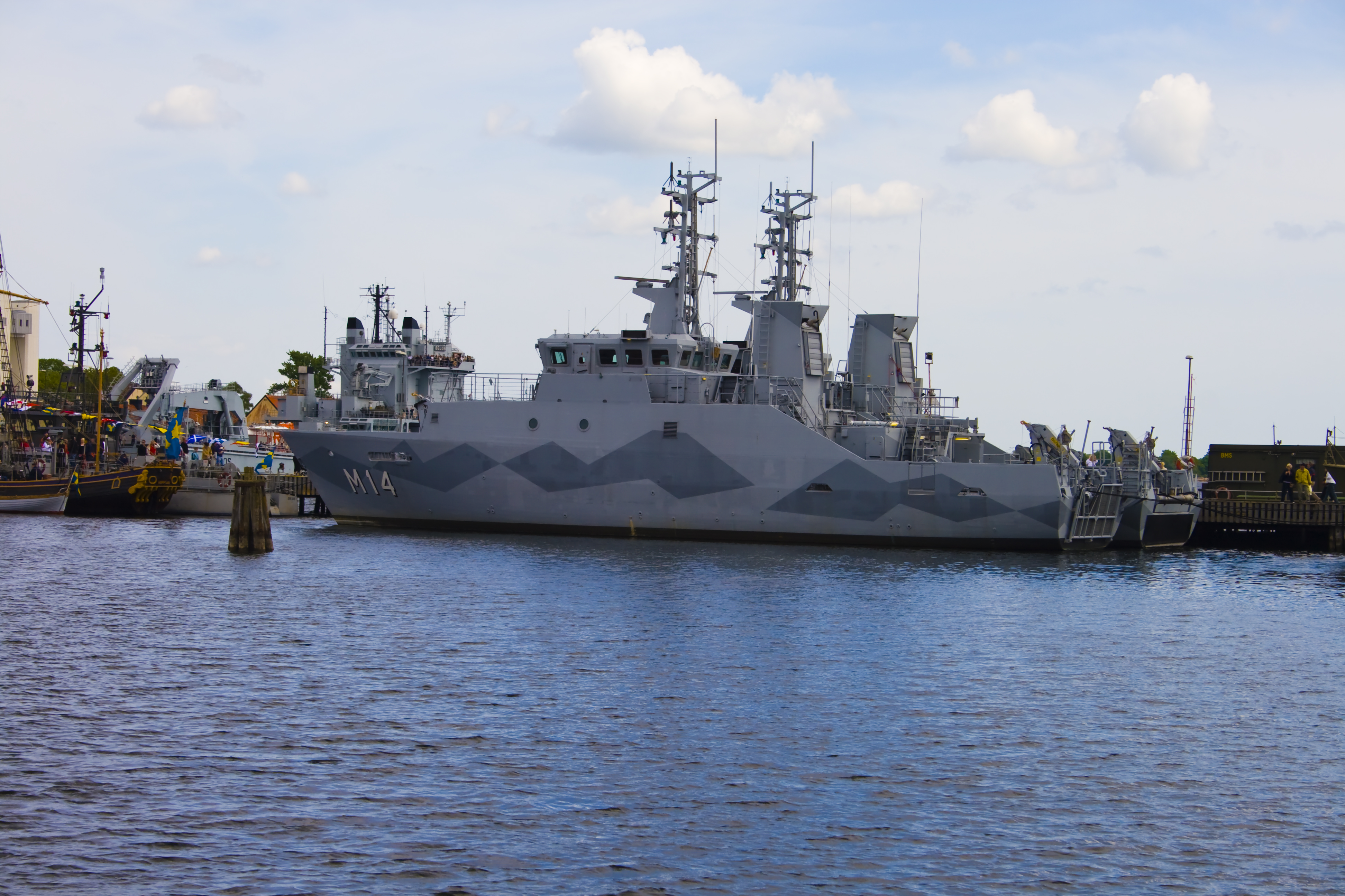 M14 Sturkö at Marinens Dag in Karlskrona.